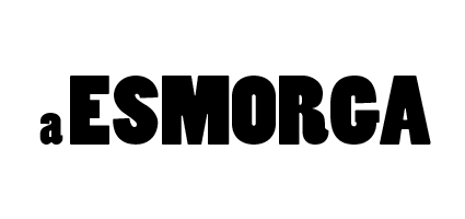 Logo of A esmorga